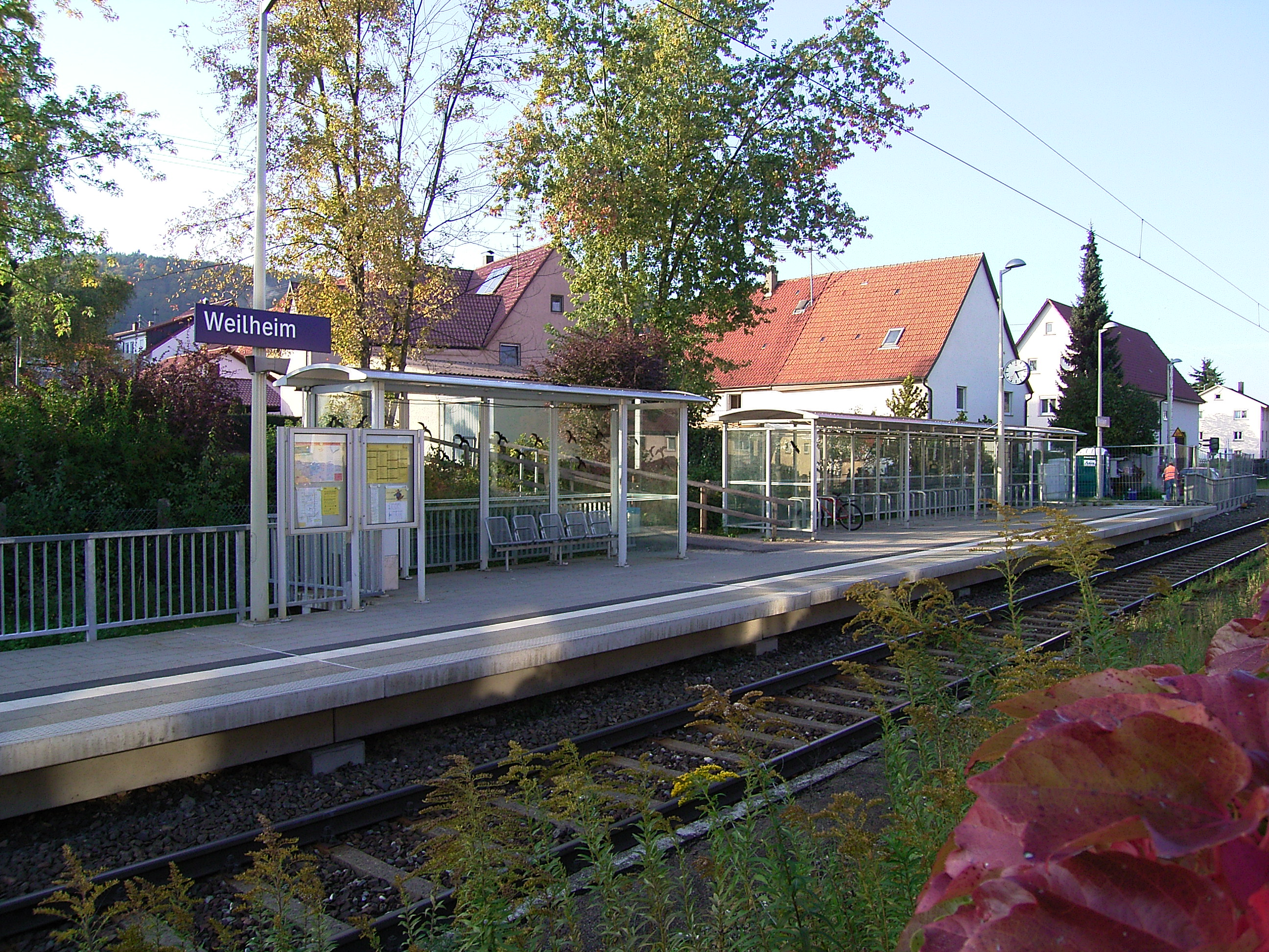 Holding Point of the Cycle-Train in Weilheim (Rietheim-Weilheim)